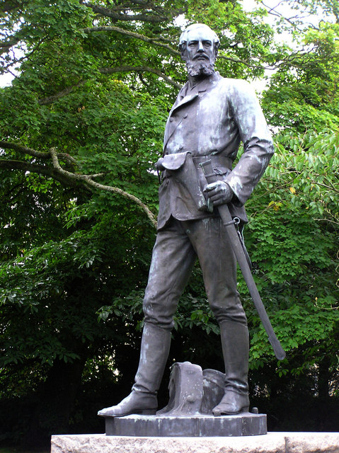 Brigiadier General John Nicholson statue It is located in the grounds of Dungannon Royal School